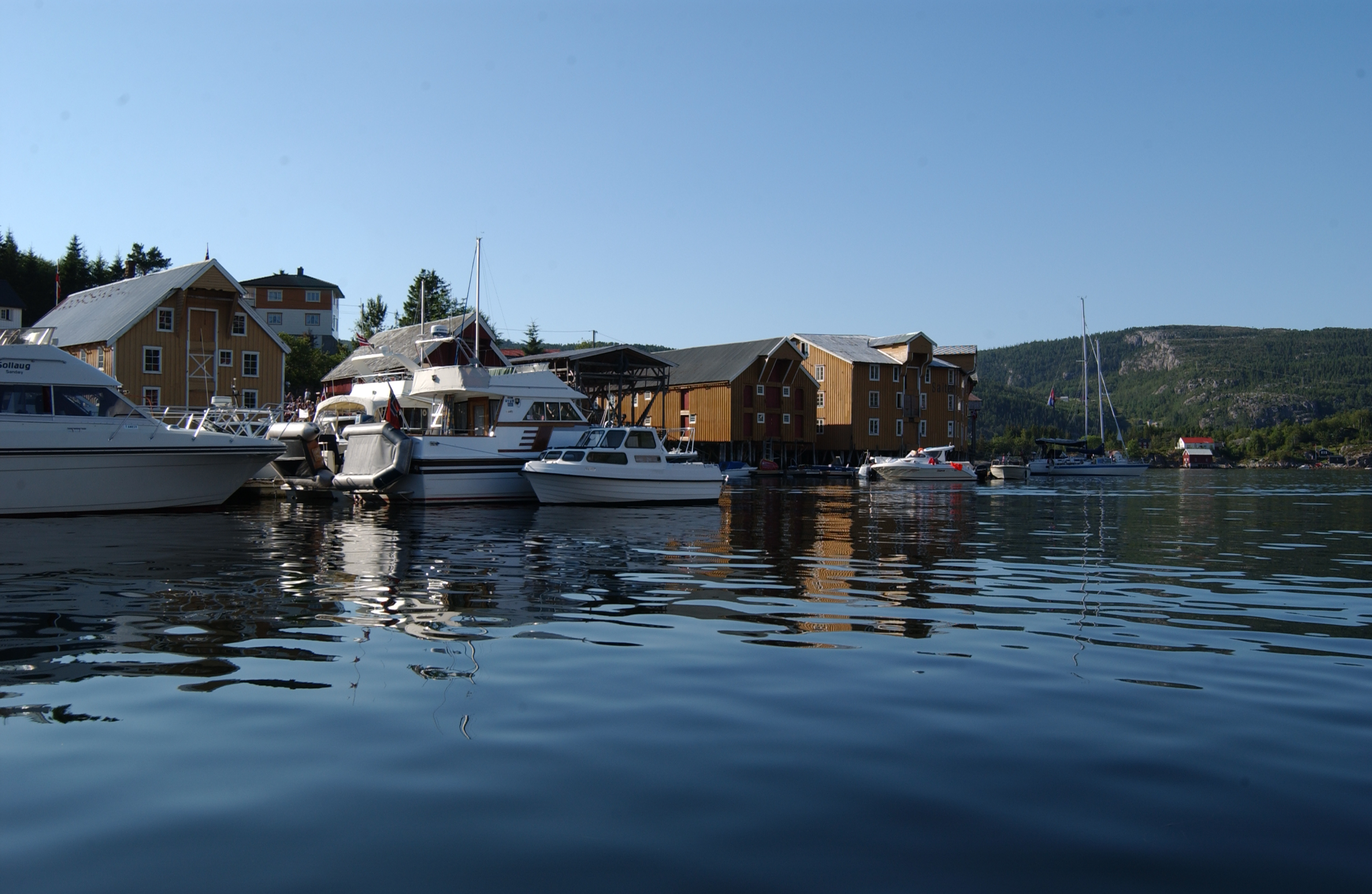 Råkvåg port summer of 2006. if you want more pictures from råkvåg, add a comment about it, why and where you want to use it. and i will upload some more.